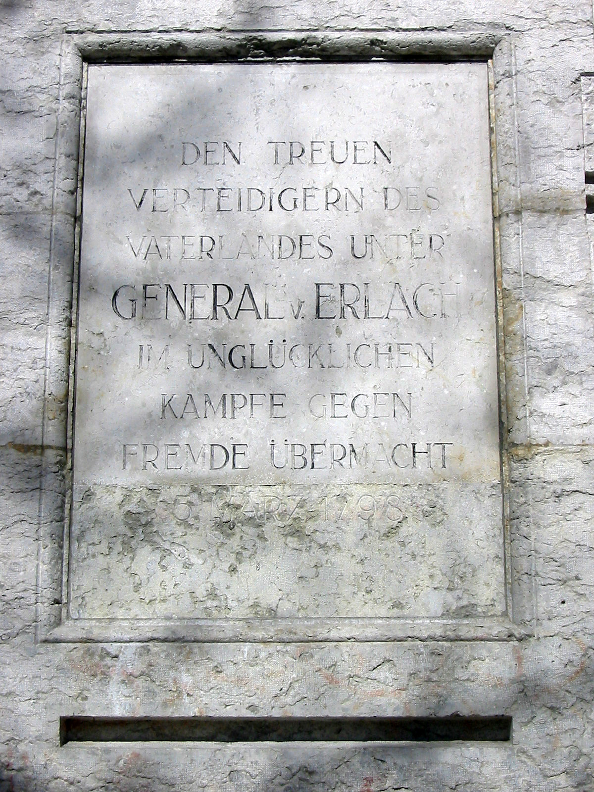 Grauholz memorial near Schönbühl, Bern, Switzerland. Inscription SE-front.